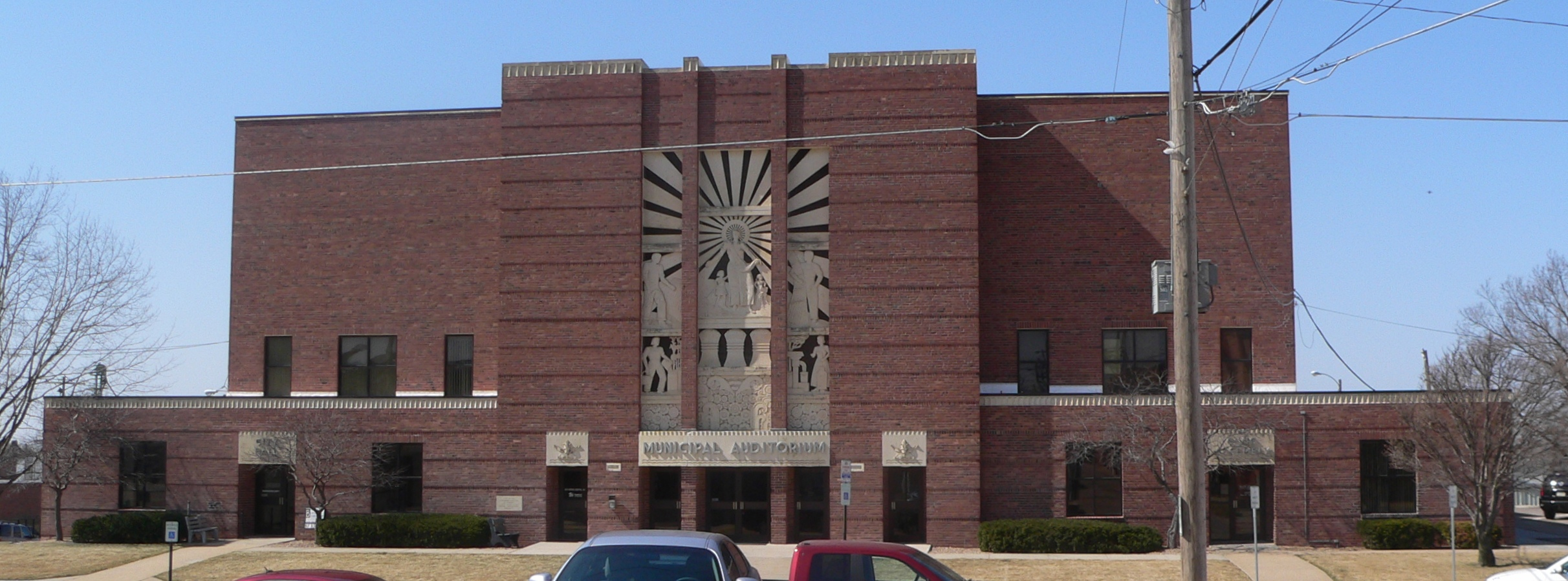 Beatrice Municipal Auditorium, located at 205 N. 4th Street in Beatrice, Nebraska. Seen from the east, across 4th.